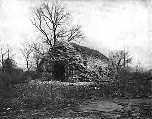 Remains of Old Fort Chartres (Illinois Historical Site)